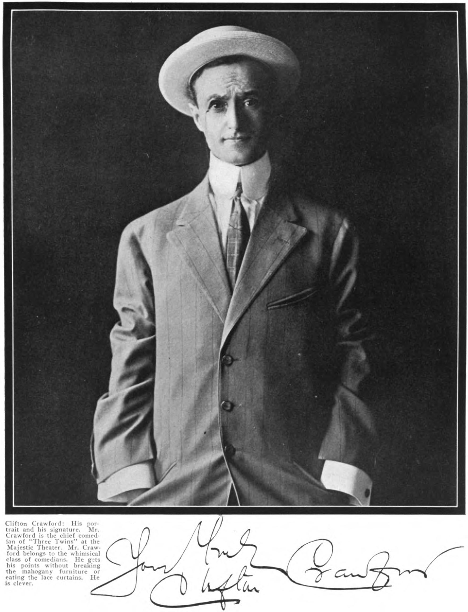 Clifton Crawford was a songwriter at the beginning of the 20th century